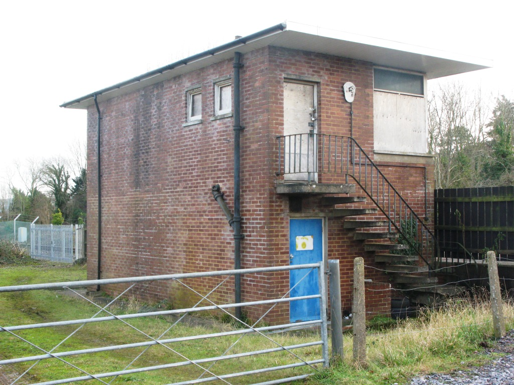 The disused signal box at Crewkerne, Somerset, England.